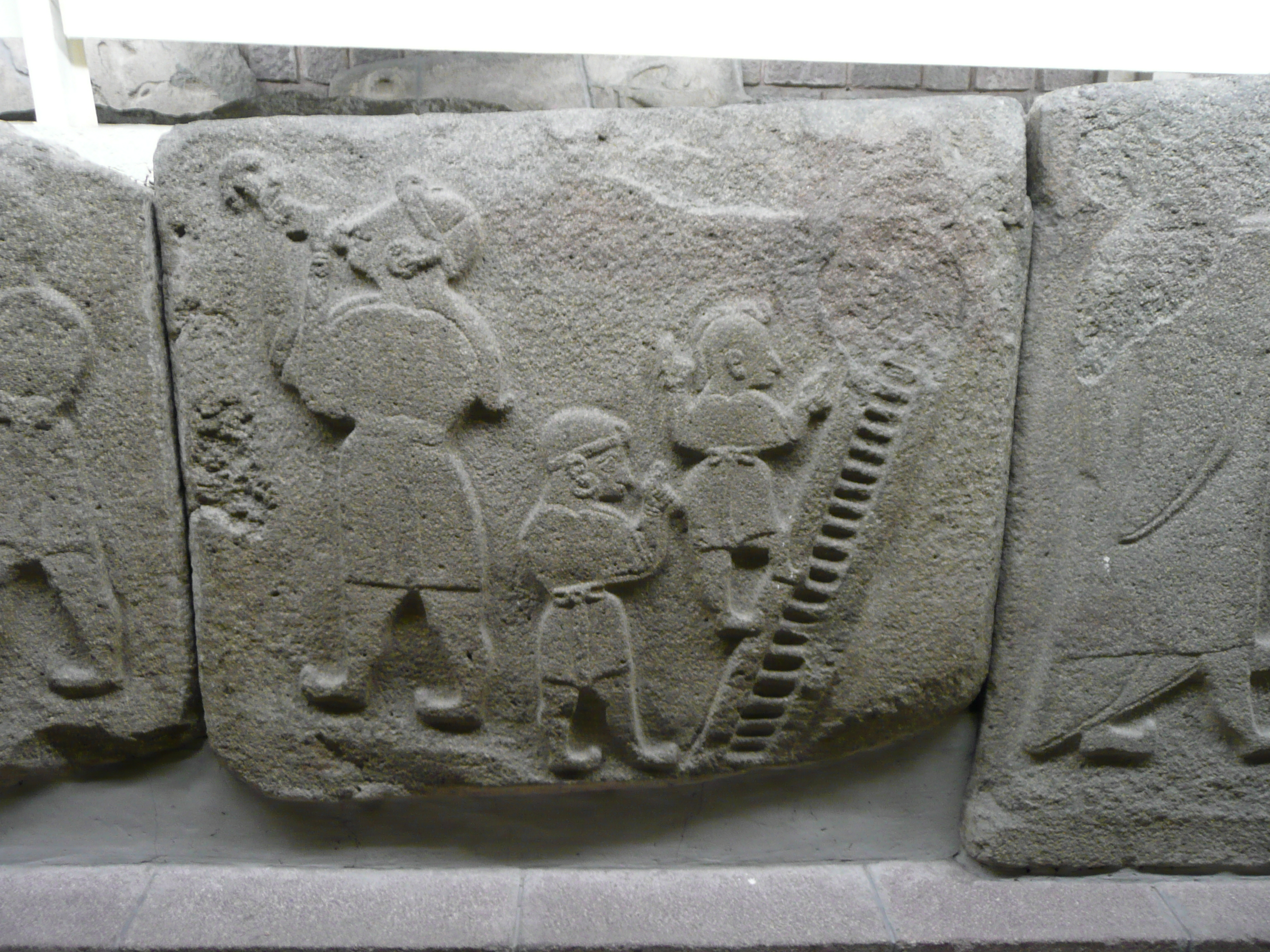 The Museum of Anatolian Civilizations is situated in Ankara, Turkey. It is one of the leading museums in the world for its unique collection of the ancient history of Anatolia.